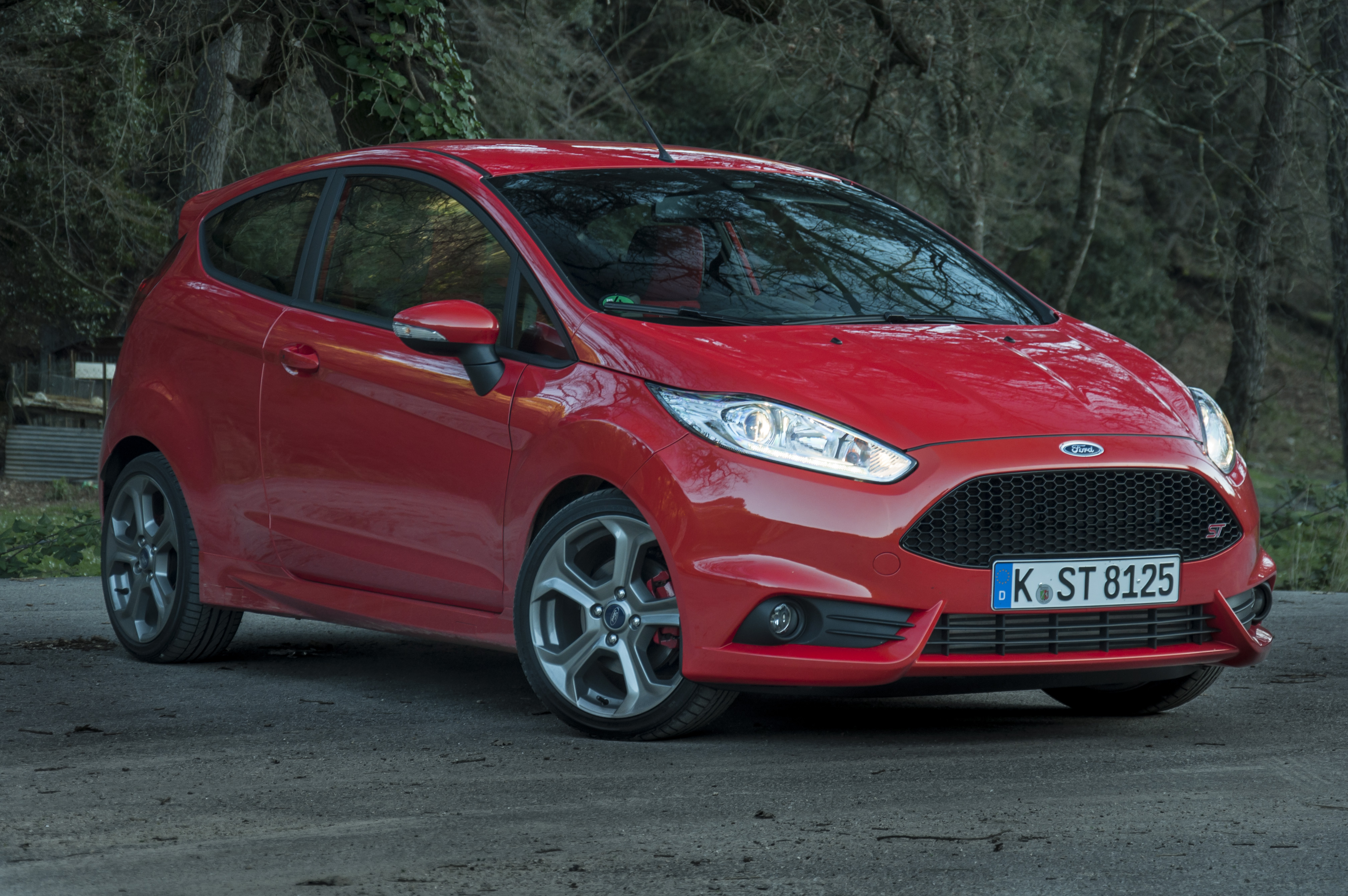 Test Drive / Diariomotor